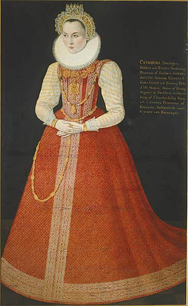 Sophia of Saxe-Lauenburg (1547–1611), daughter of Gustav I of Sweden (not Catherine!) The factual accuracy of this description or the file name is disputed.Reason: Please see the relevant discussion on the talk page.